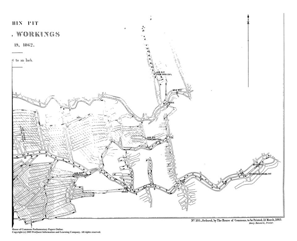 Pit 1 subterranean map